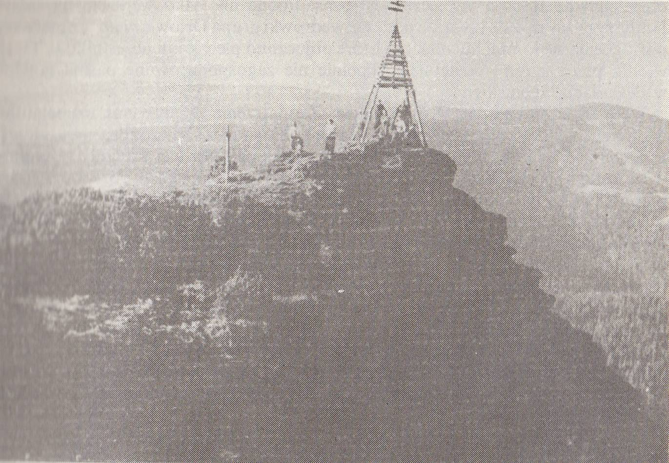 Hnitessa Mountain in Ukrainian Carpathians